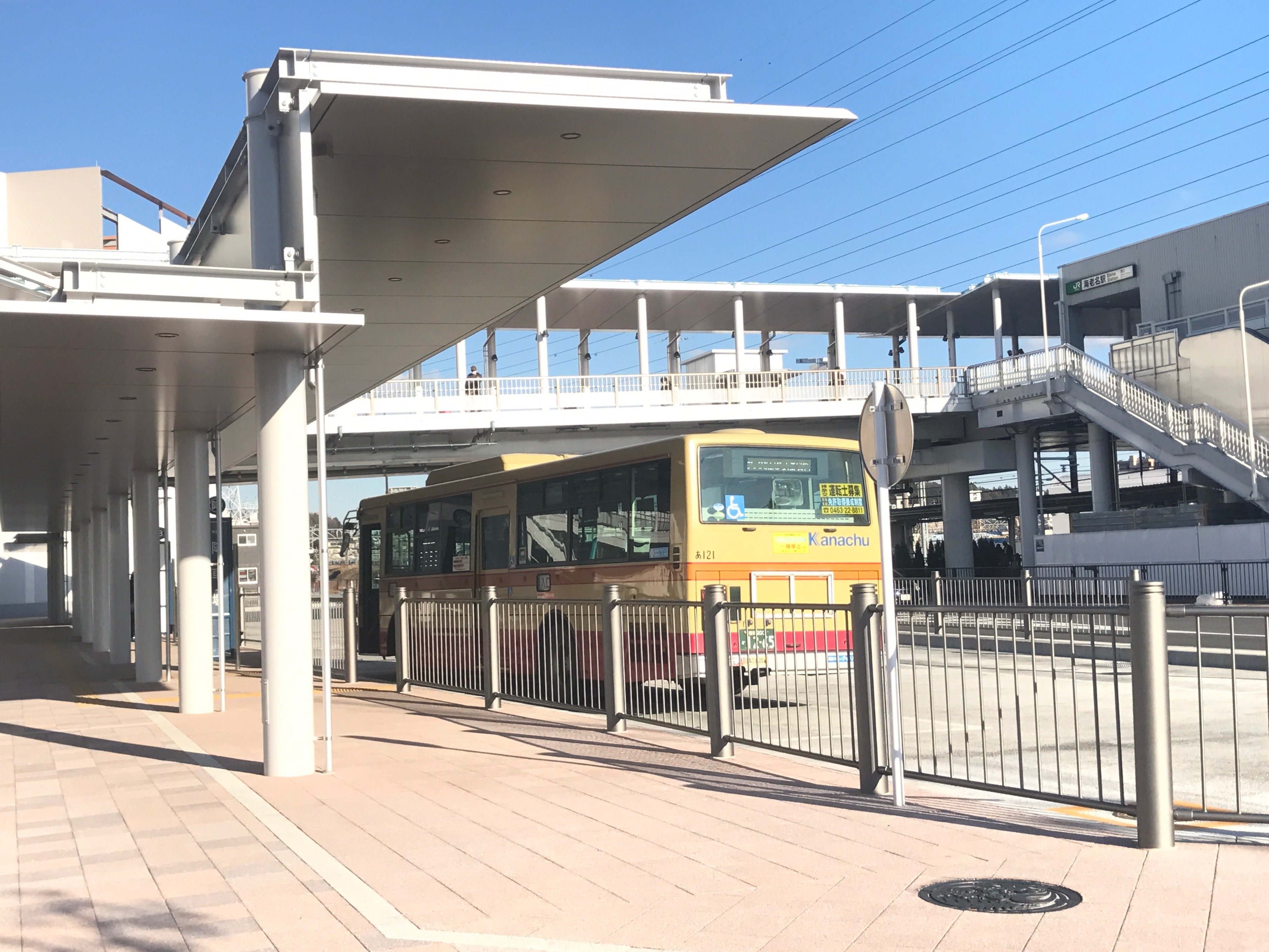 Bus treminal at Ebina station West entrance at JR Ebina station (LaLaport Ebina) side in Japan.